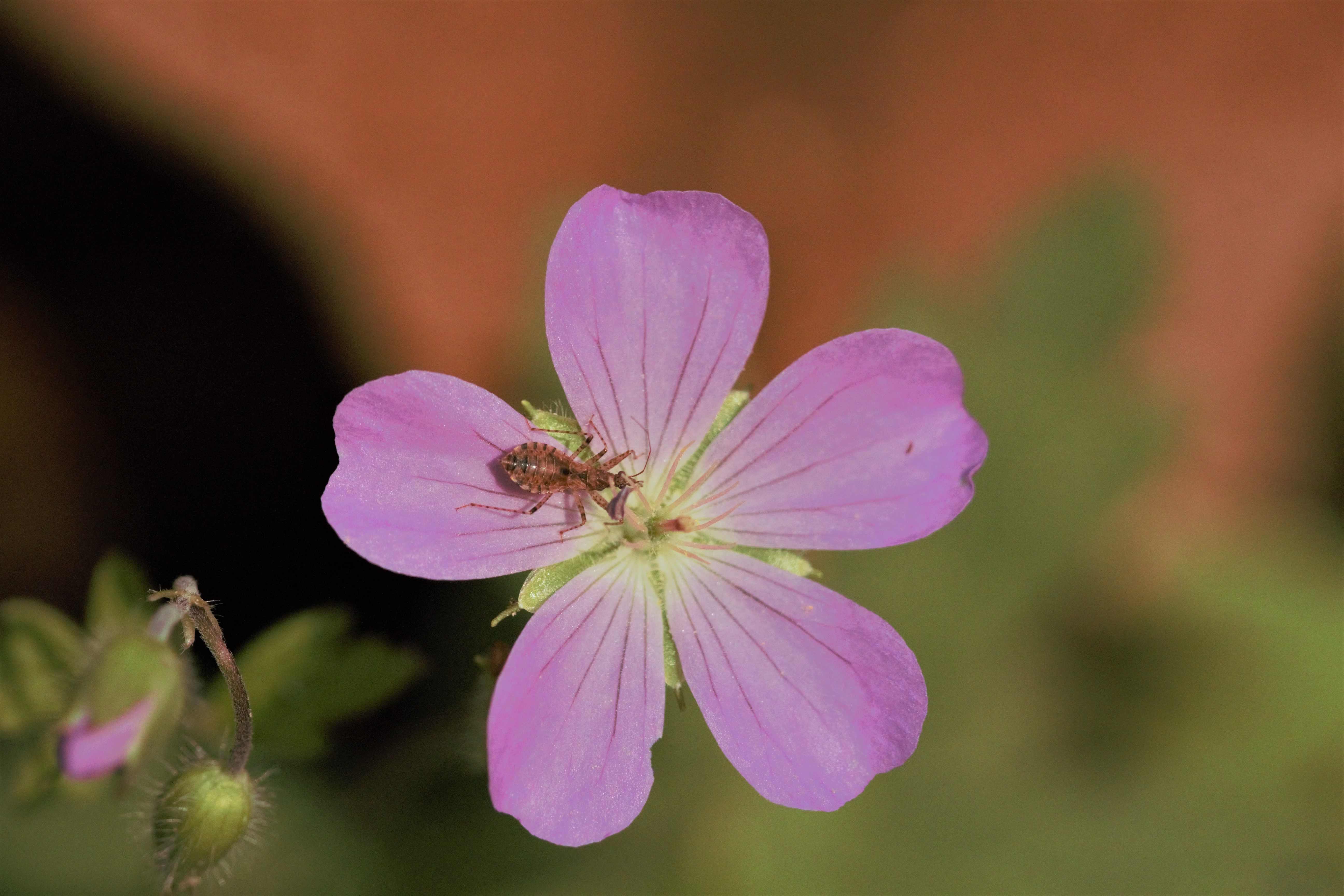 Flower in Peters Mountain Wilderness